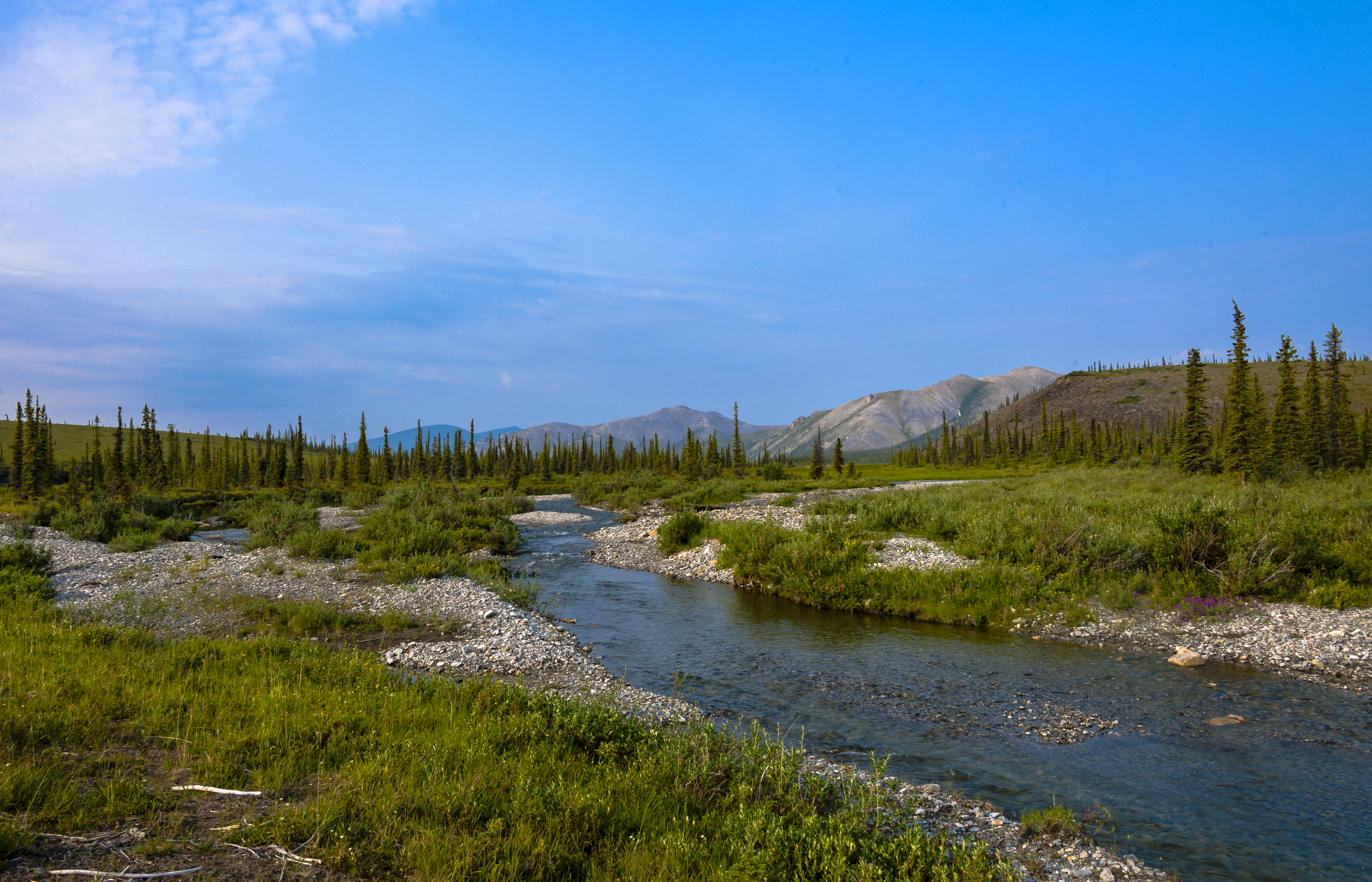 A different exposure from this one of Crooked Creek in Canada's Ivvavik National Park, processed with an eye to making the trees on the side less unsharp.